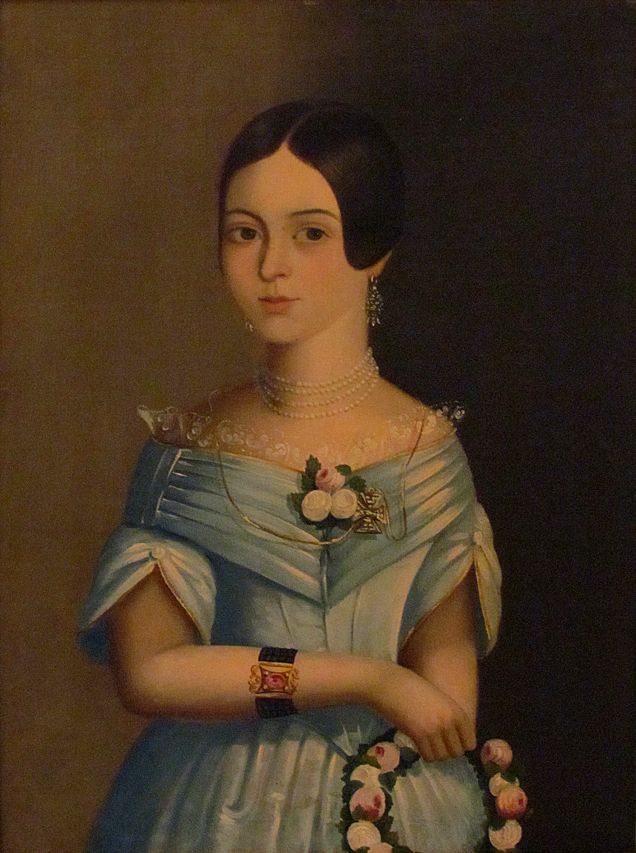 Uroš Knežević, Mileva Vukomanović, 1843, Princess Ljubica's Residence